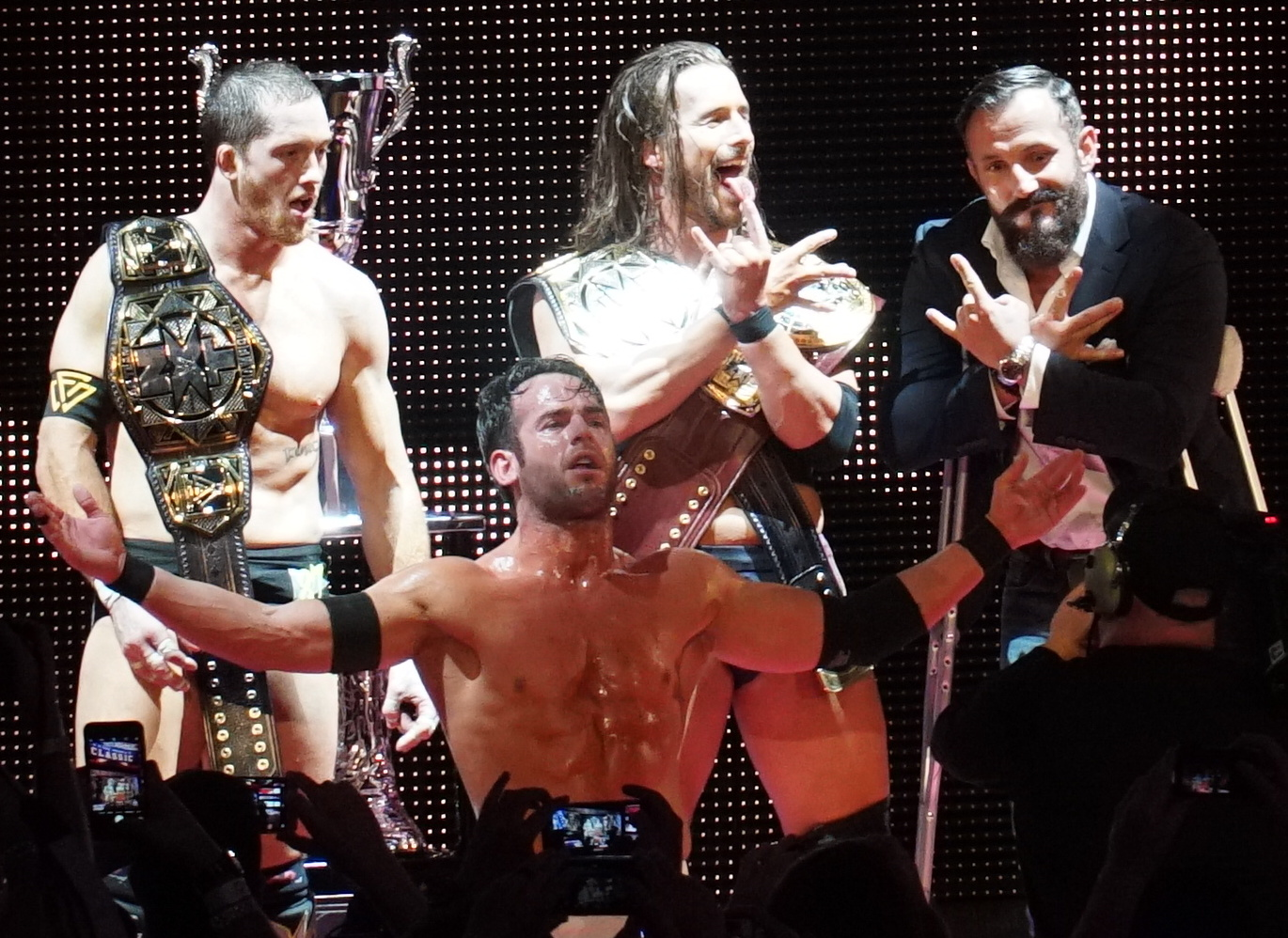 NOLA 2018 - WWE NXT Takeover - New Orleans - Adam Cole & Kyle O'Reilly Vs Akam & Rezar, Pete Dunne & Roderick Strong Adam Cole (c) & Kyle O'Reilly (c) def. (pin) Akam & Rezar, Pete Dunne & Roderick Strong (in 11:42) Type of match : triple-threat tag For : NXT Tag Team Titles Rating : ***1/4 ( Deux semaines a Nola pour la ville et pour WWE Wrestlemania XXXIV Two weeks Nola for the city and for WWE Wrestlemania XXXIV )